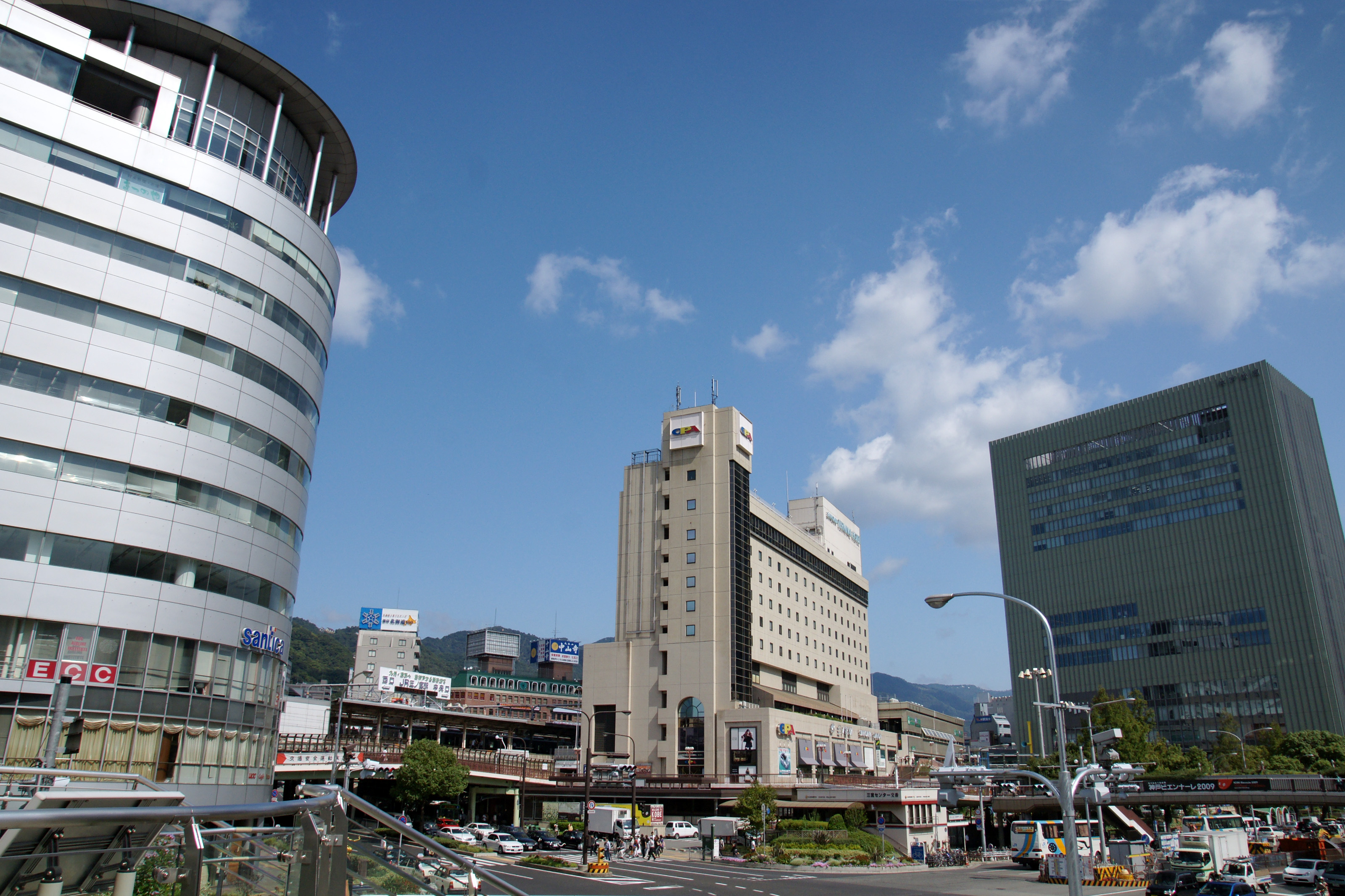 Sannomiya, Kobe, Hyogo prefecture, Japan